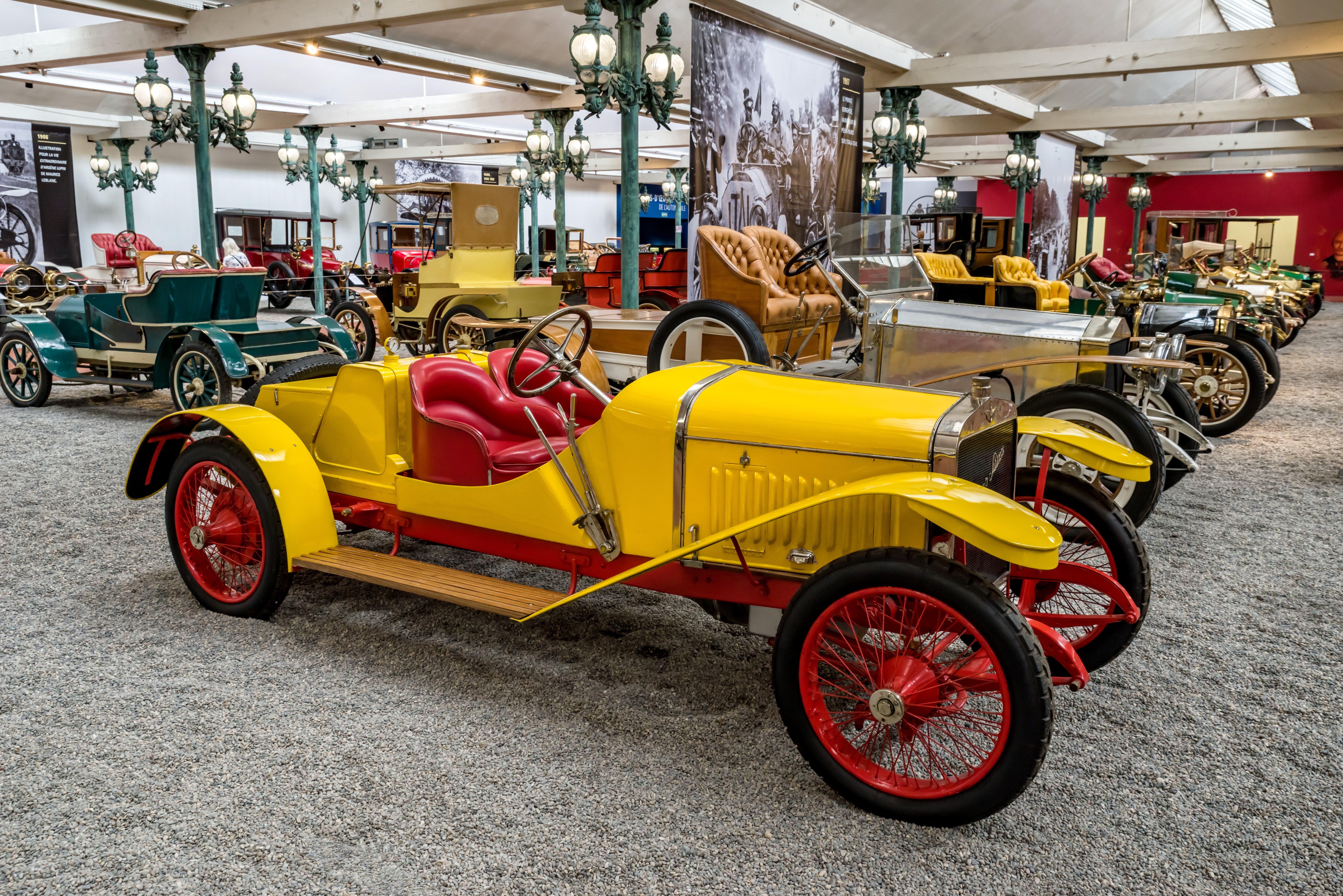 pictures from the Cité de l’Automobile – Musée National – Collection Schlump in Mulhouse, France ptictures from the 10. may 2018